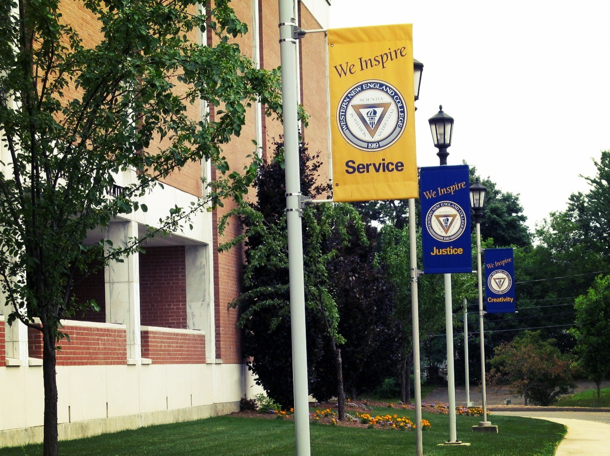 Side picture of Western New England School of Law.